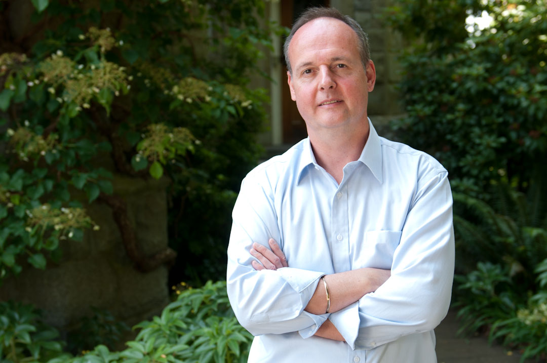 Bill Durodié at Royal Roads University. Other information It is freely available at; I have an e-mail from the University confirming I can use it.